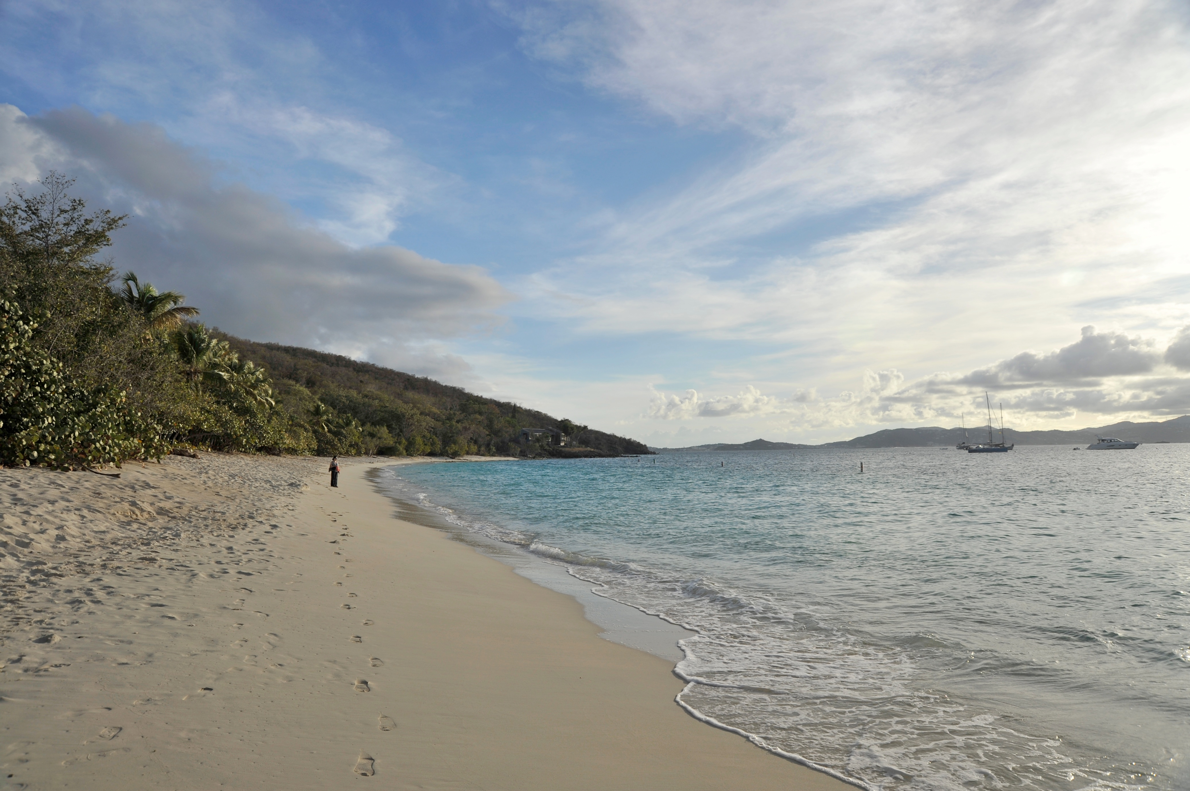 Honeymoon Beach, one of seven beaches at Caneel Bay